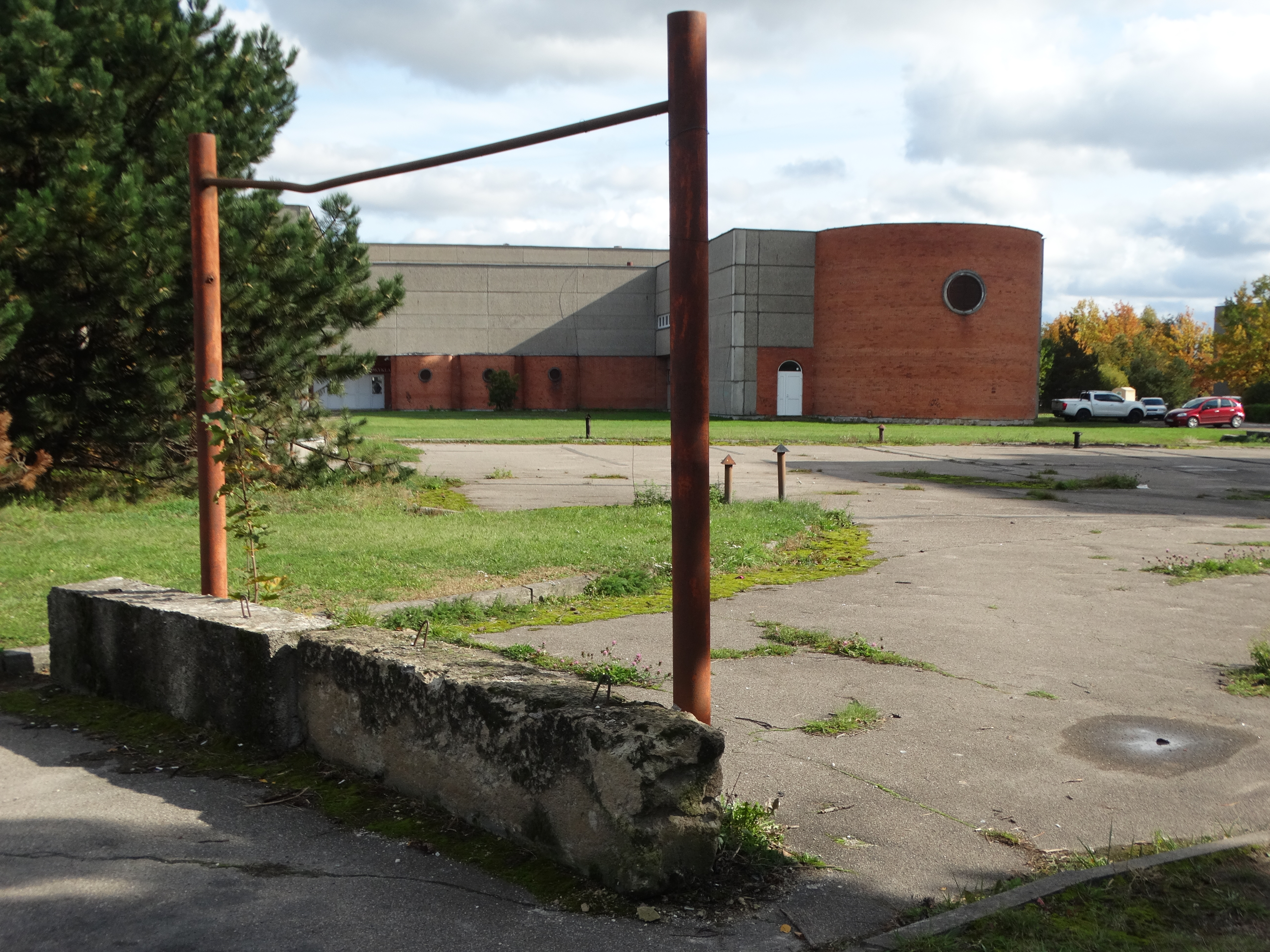 Former Titas Masiulis Youth School, Kaunas, Lithuania